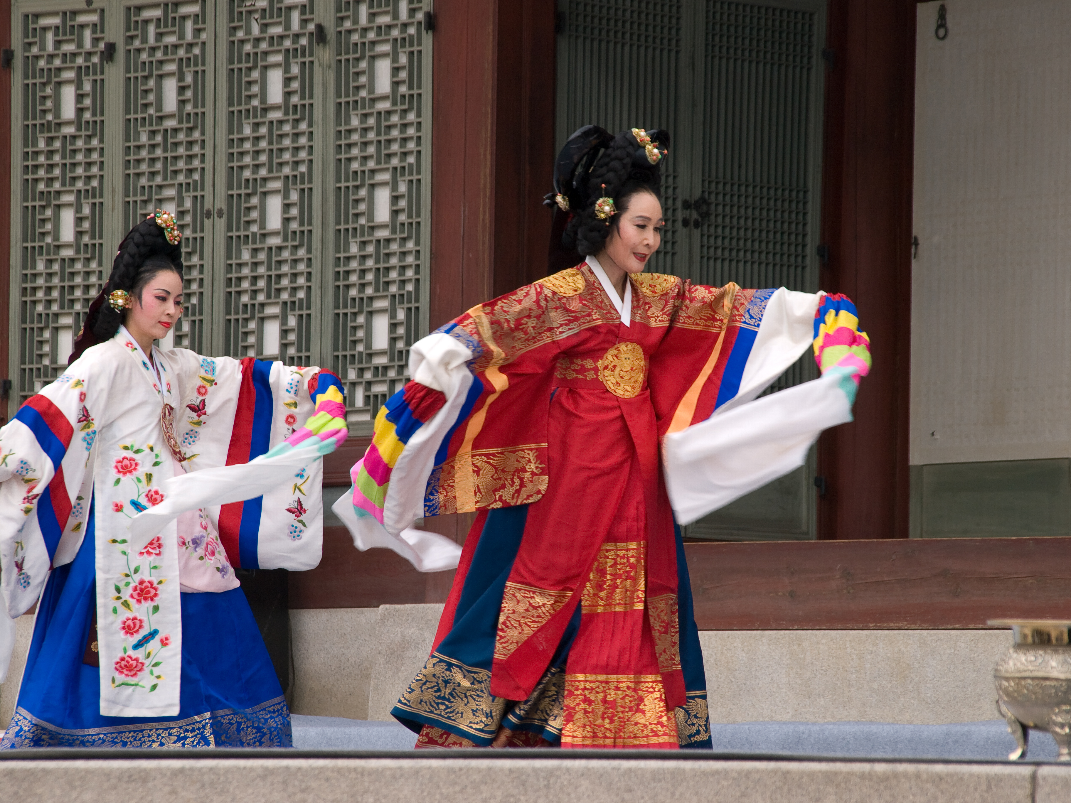 Taepyeongmu (태평무), a Korean dance wishing a great peace for country, Korea. Its origin is unknown but late Hahn Seungjun, a reknown dancer and drummer rearranged the dance based on a court dance occasionally performed by king during Joseop dynasty of Korea. Therefore, the costumes used for dancers are almost similar to king and queen's gwanbok (관복, official clothings). Taepyeongmu is designated as one of the Important Intangible Cultural Properties of South Korea.